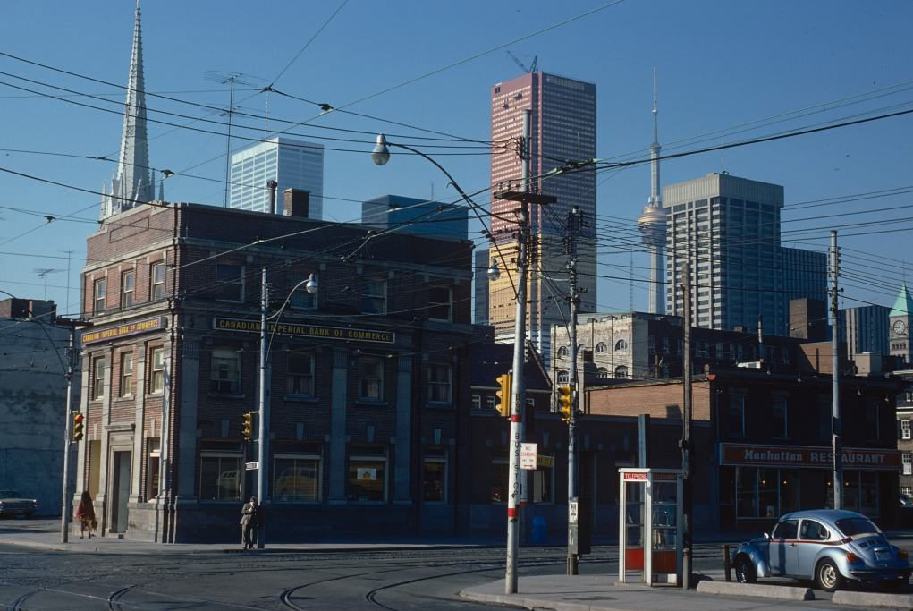 The Sterling Bank Building on the southwest corner of Church and Dundas Streets, occupied by a branch of the Canadian Imperial Bank of Commerce. First Canadian Place (with the marble cladding slowly being added to lower levels) and CN Tower are visible in the background, both under construction. Toronto, Ontario, Canada.